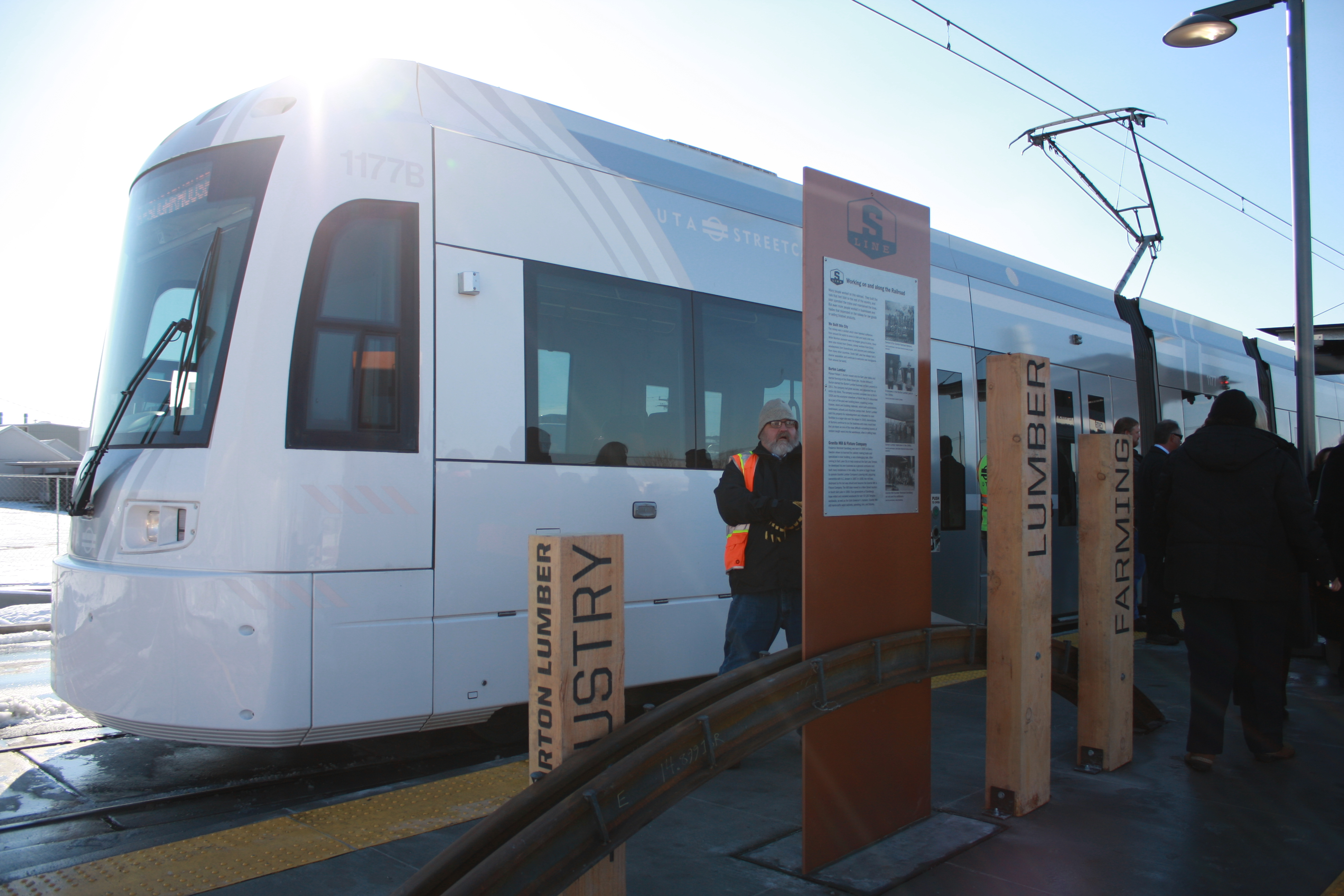 UTA opened it's street car called the S Line in December 2013. It runs East to West through South Salt Lake City and Sugarhouse in Salt Lake City.